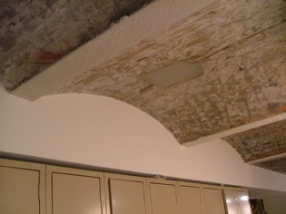 Copyright (c) 2005 Peter Clericuzio. Permission is granted to copy, distribute and/or modify this document under the terms of the GNU Free Documentation License, Version 1.2 or any later version published by the Free Software Foundation; with no Invariant Sections, no Front-Cover Texts, and no Back-Cover Texts. A copy of the license is included in the section entitled "GNU Free Documentation License". Photo taken by Peter Clericuzio, 22 June 2005, using a Fuji FinePix S5000 digital camera.